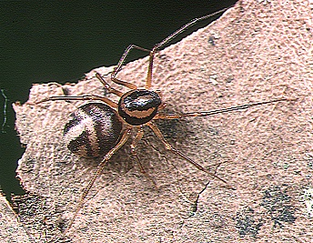 female Scytodes fusca from Okinawa.